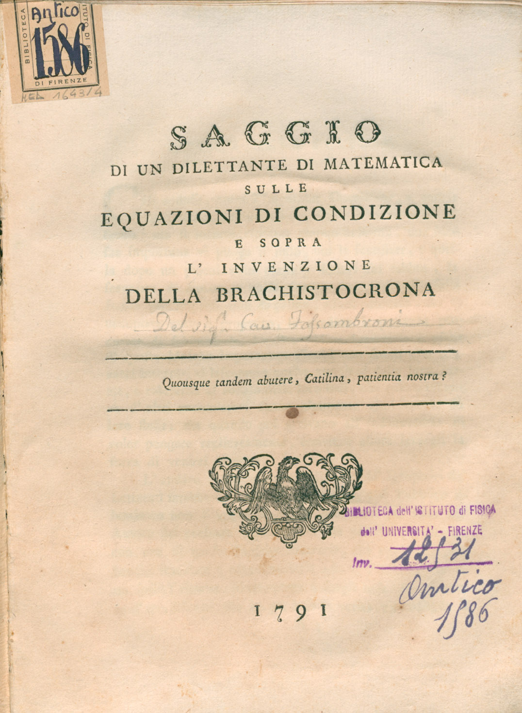 Title-page of Saggio di un dilettante di matematica sulle equazioni di condizione e sopra l'invenzione della brachistocrona by Vittorio Fossombroni (1791)